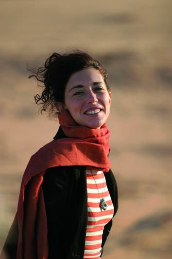 The Italian journalist and writer Francesca Paci in Jordan in 2004